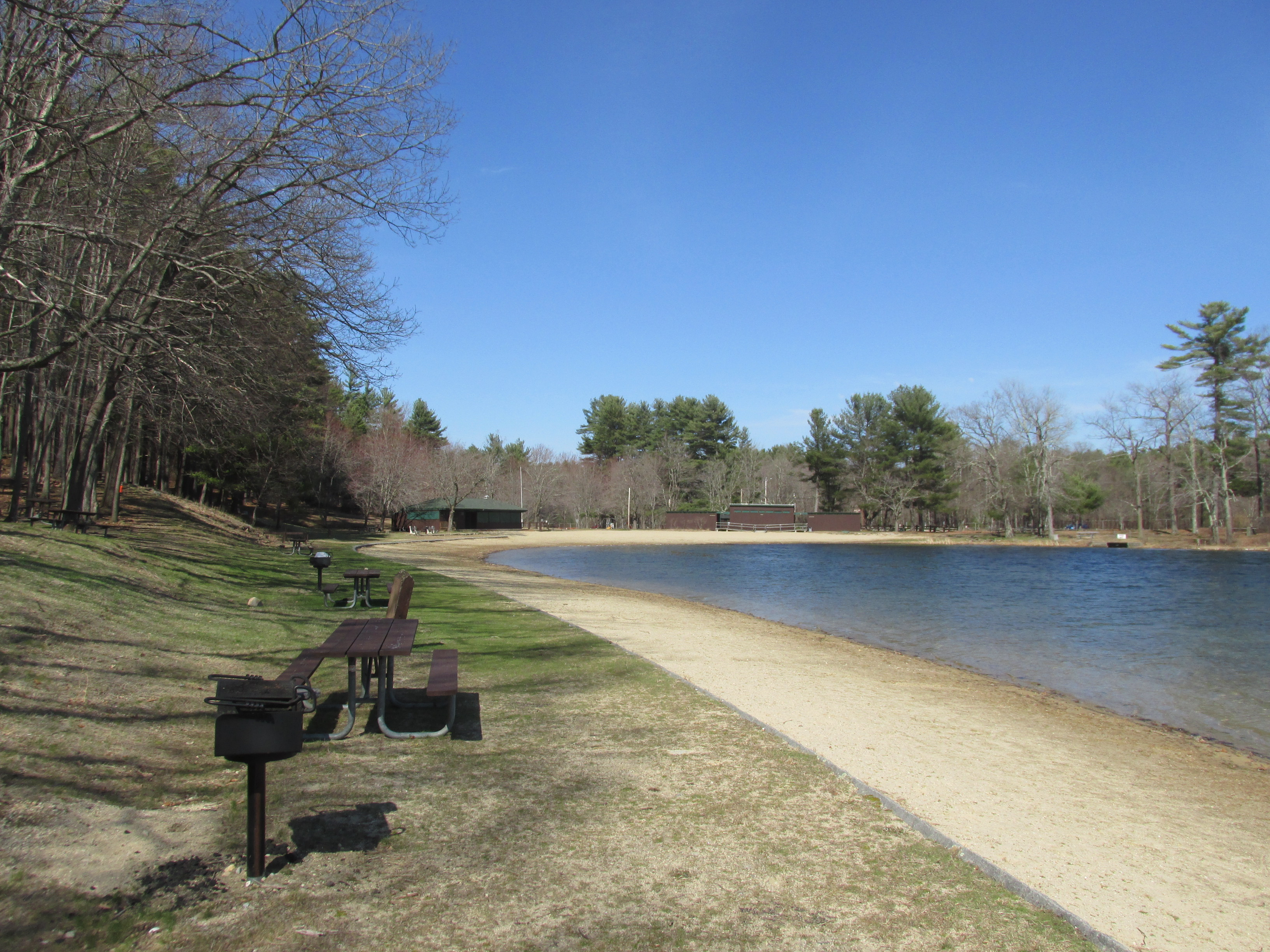 Silver Lake State Park, Hollis New Hampshire - 2014